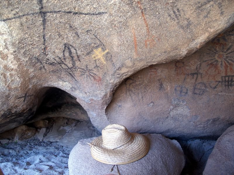 Photos of the pictographs in the Sun Cave area of Indian Hill in Anza_Borrego State Park in southern California.